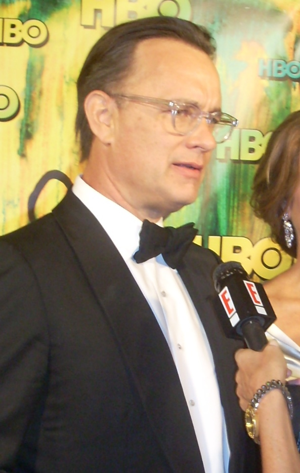 HBO Post-Emmys Party, Pacific Design Center, Sept. 21, 2008